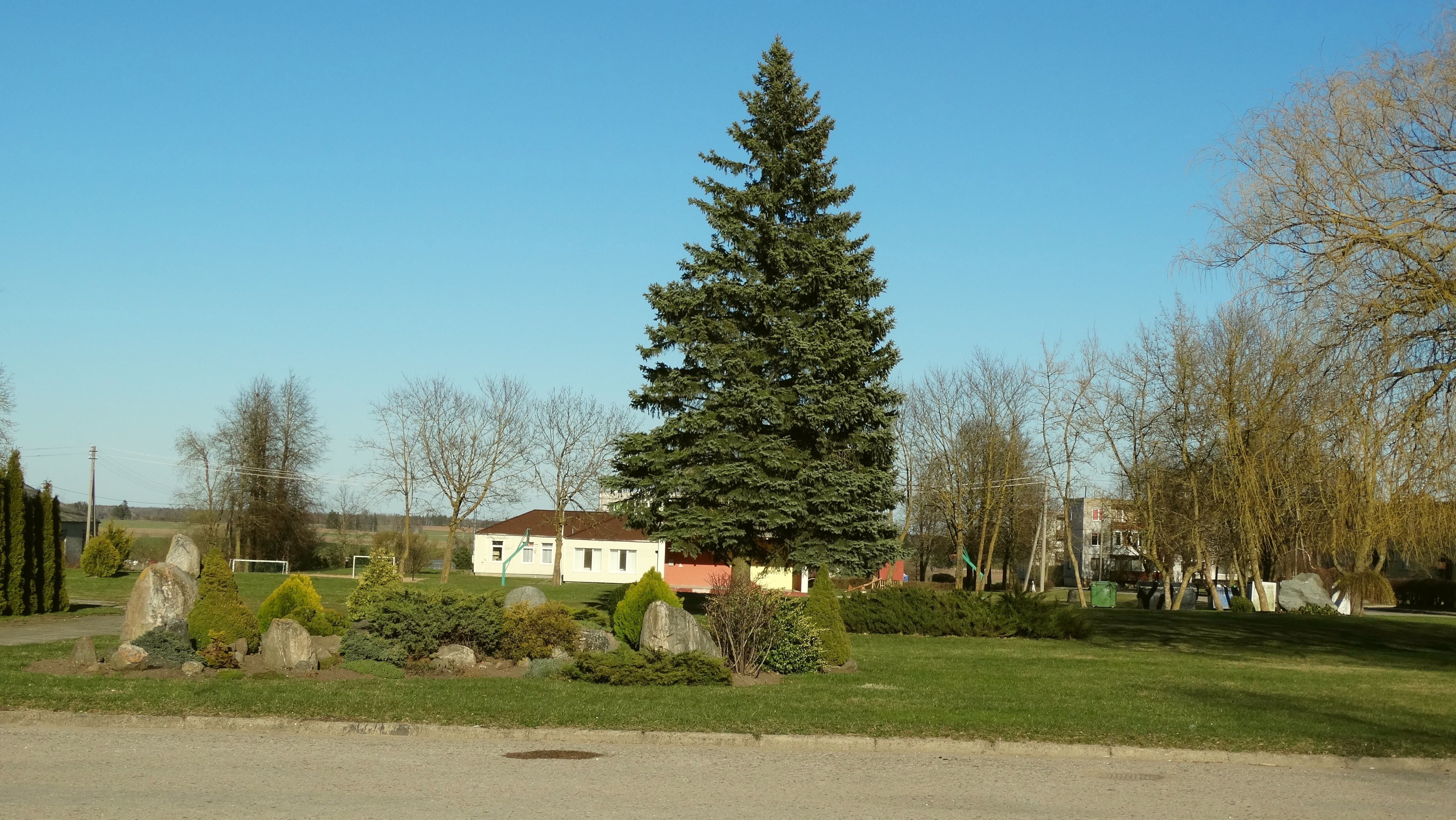 Kalnelio Gražioniai, Radviliškis District, Lithuania